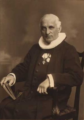 Olfert Herman Ricard (1872-1929), Danish priest and missionary